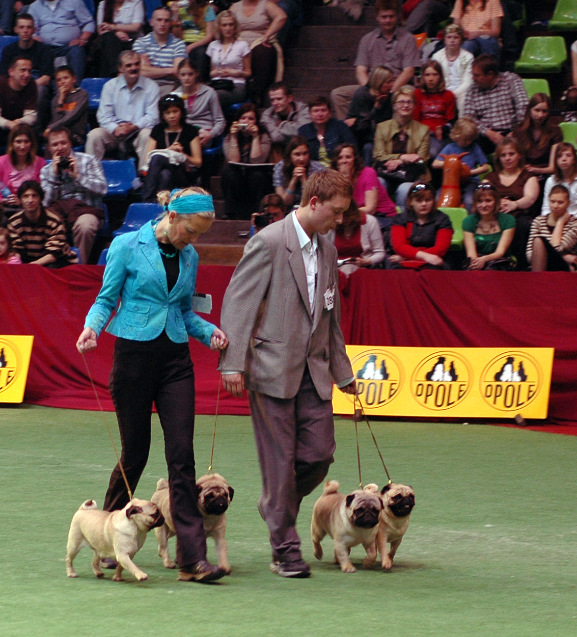 Pugs at Opole International Dog Show 2008